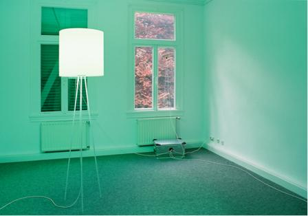 The picture shows Jan-Peter E.R. Sonntag`s "gamma verde", 2005. Photo by Matthias Wagner K.